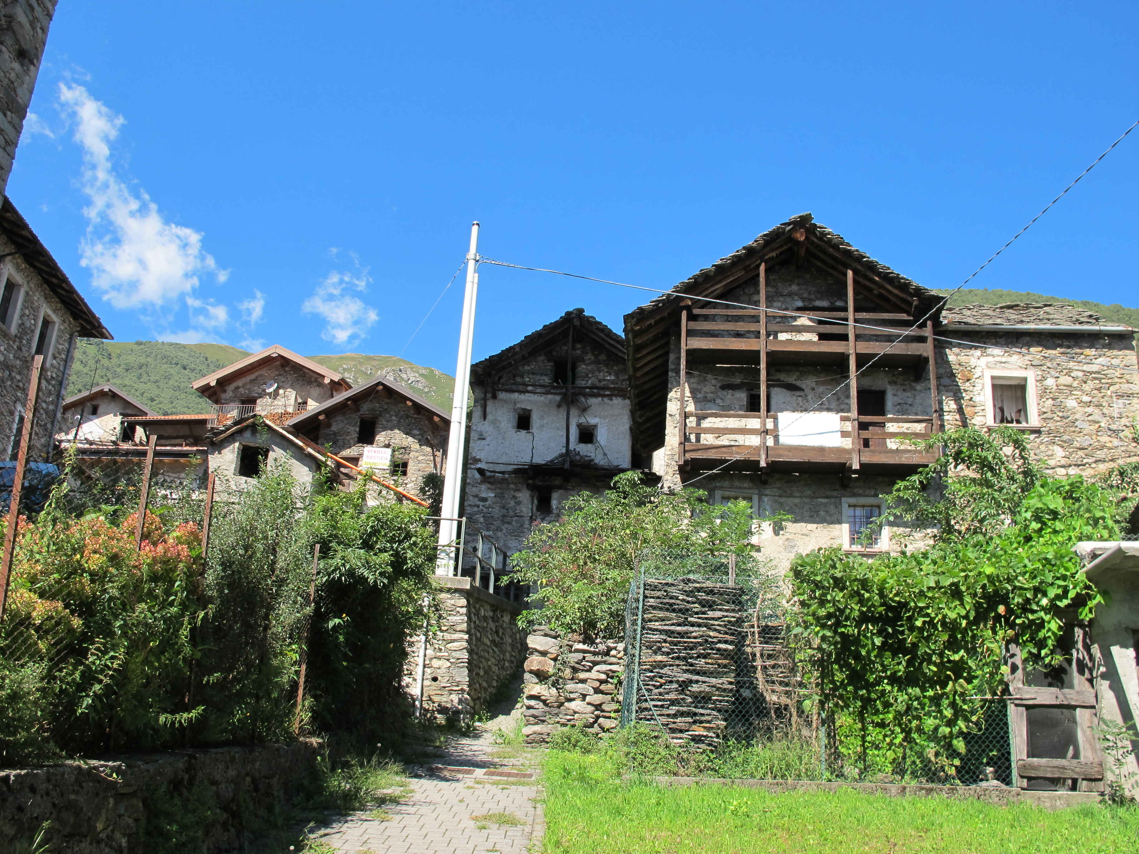 Italy, Lombardy, Livo, building